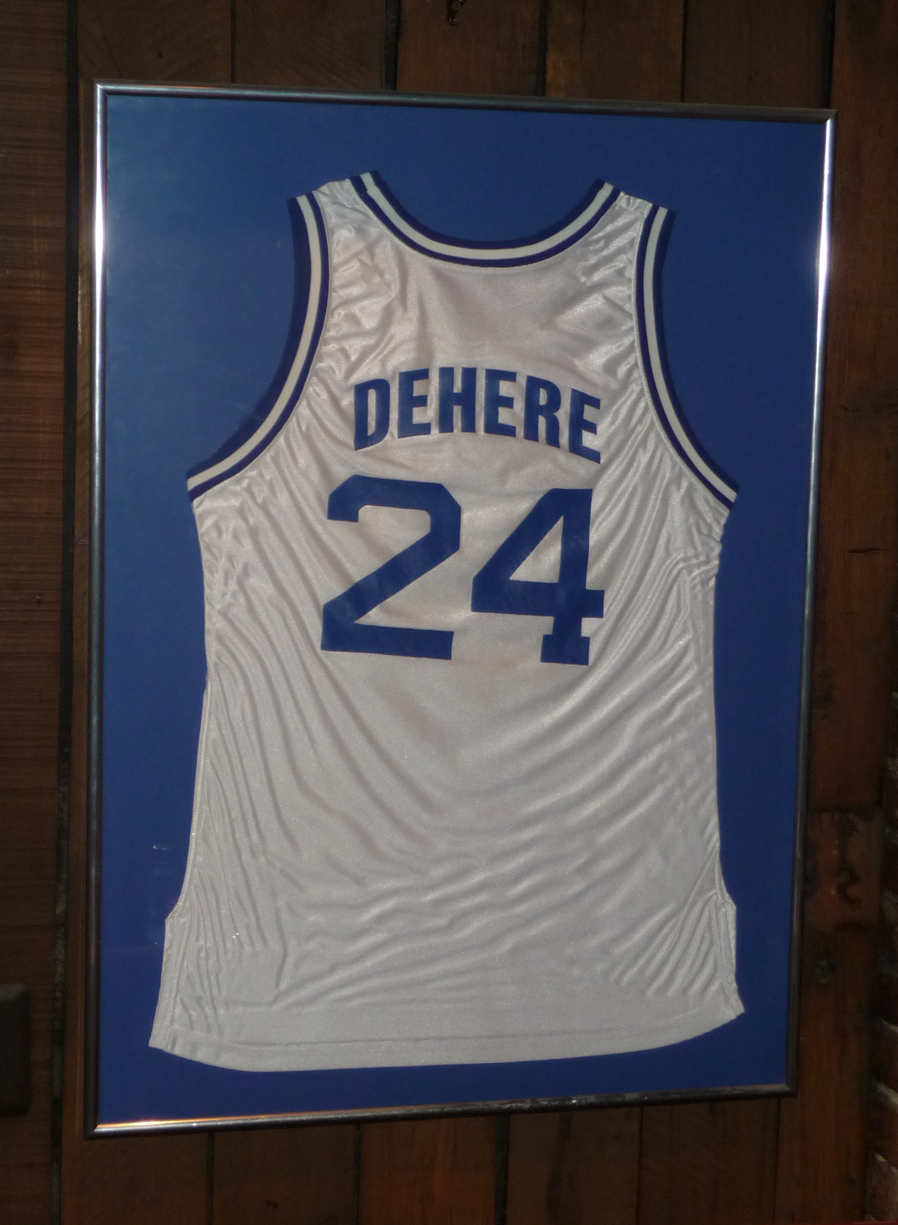 Photo of framed basketball jersey of Seton Hall player Terry Dehere as displayed in his Jersey City, New Jersey restaurant